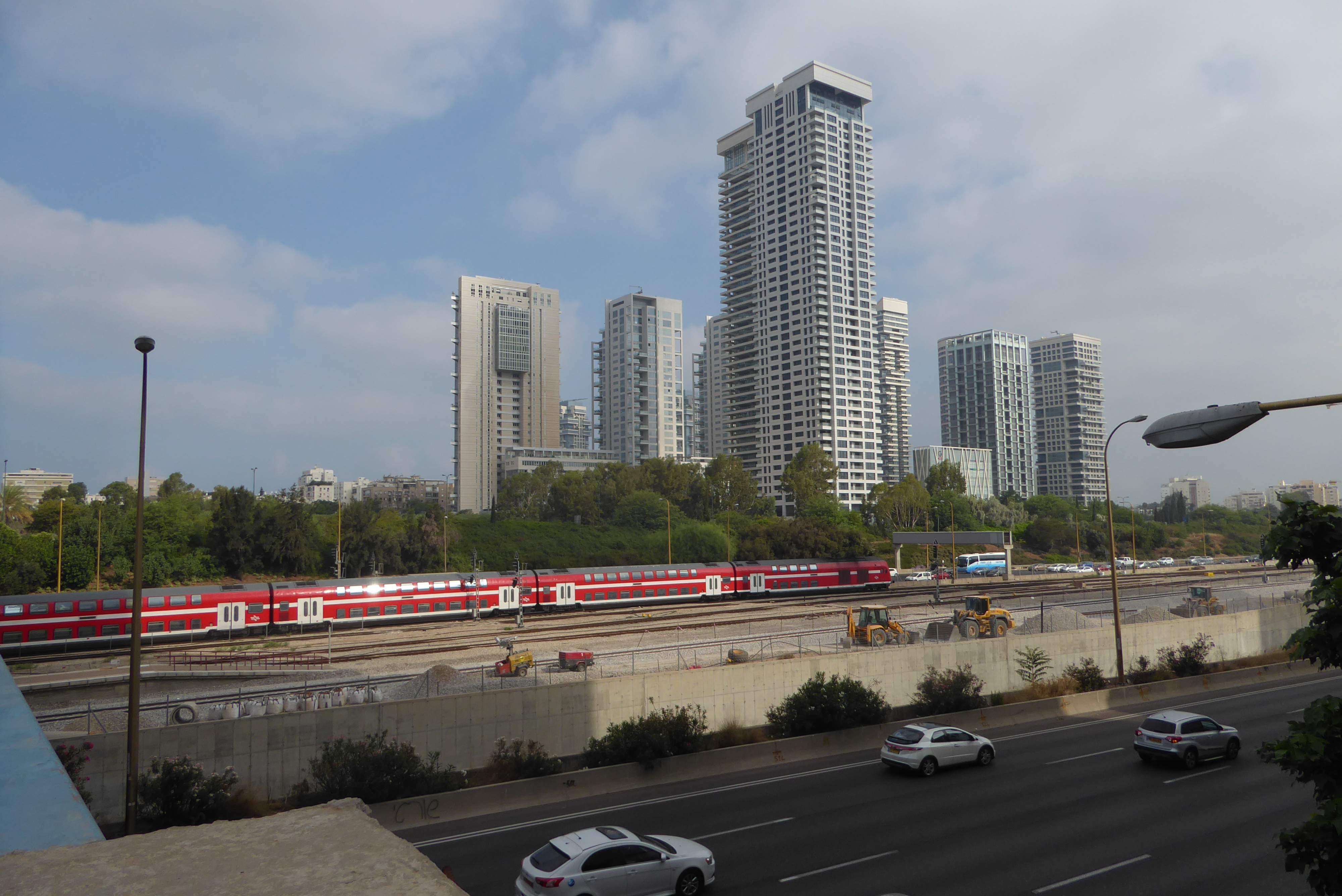 Diamond Exchange District Rmat Gan